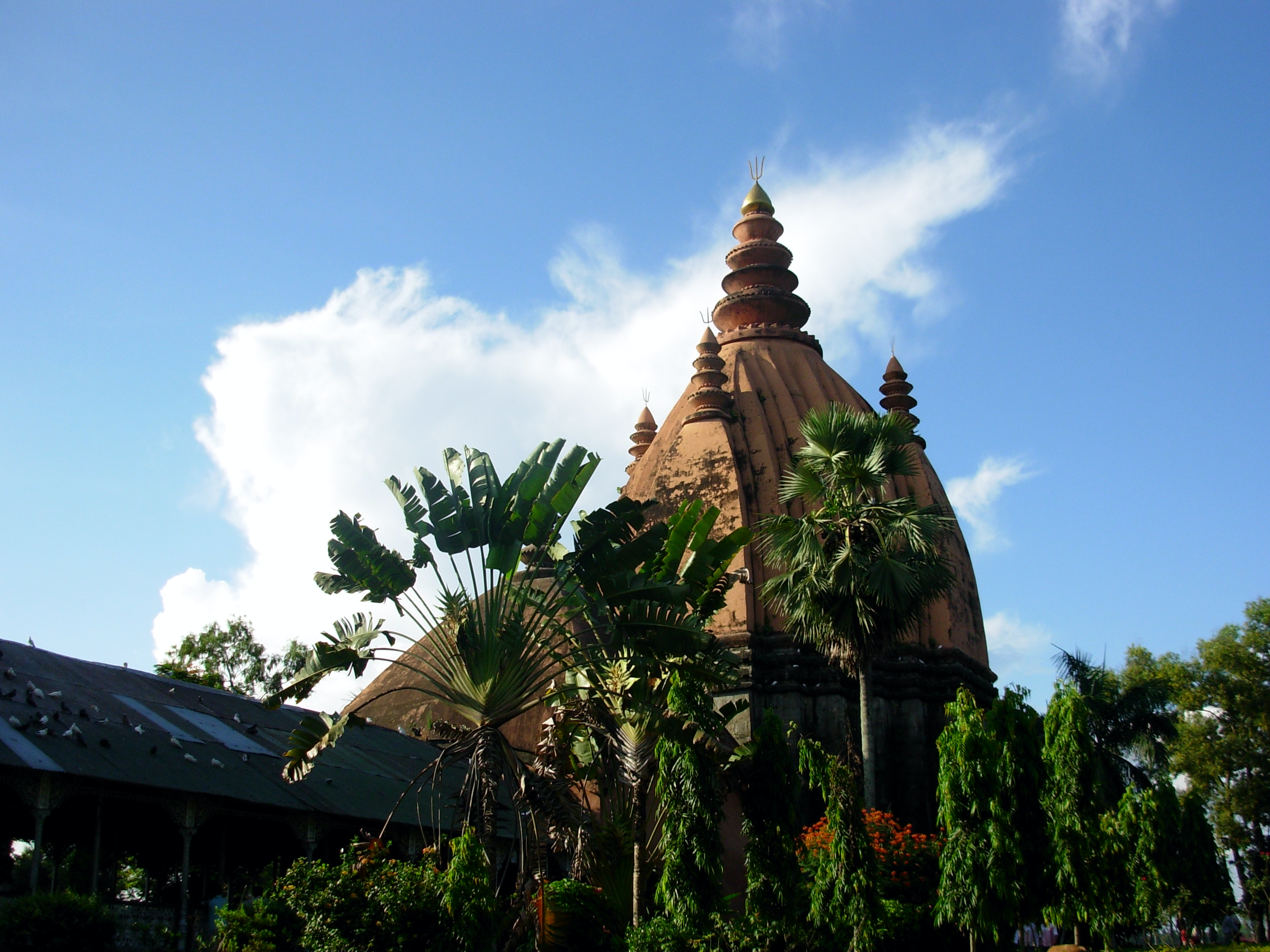 Sibodol, a temple dedicated to Lord Shiva, built by the Ahom king Siba Singha, situated on the banks of the Borpukhuri in Sibsagar, Assam, India